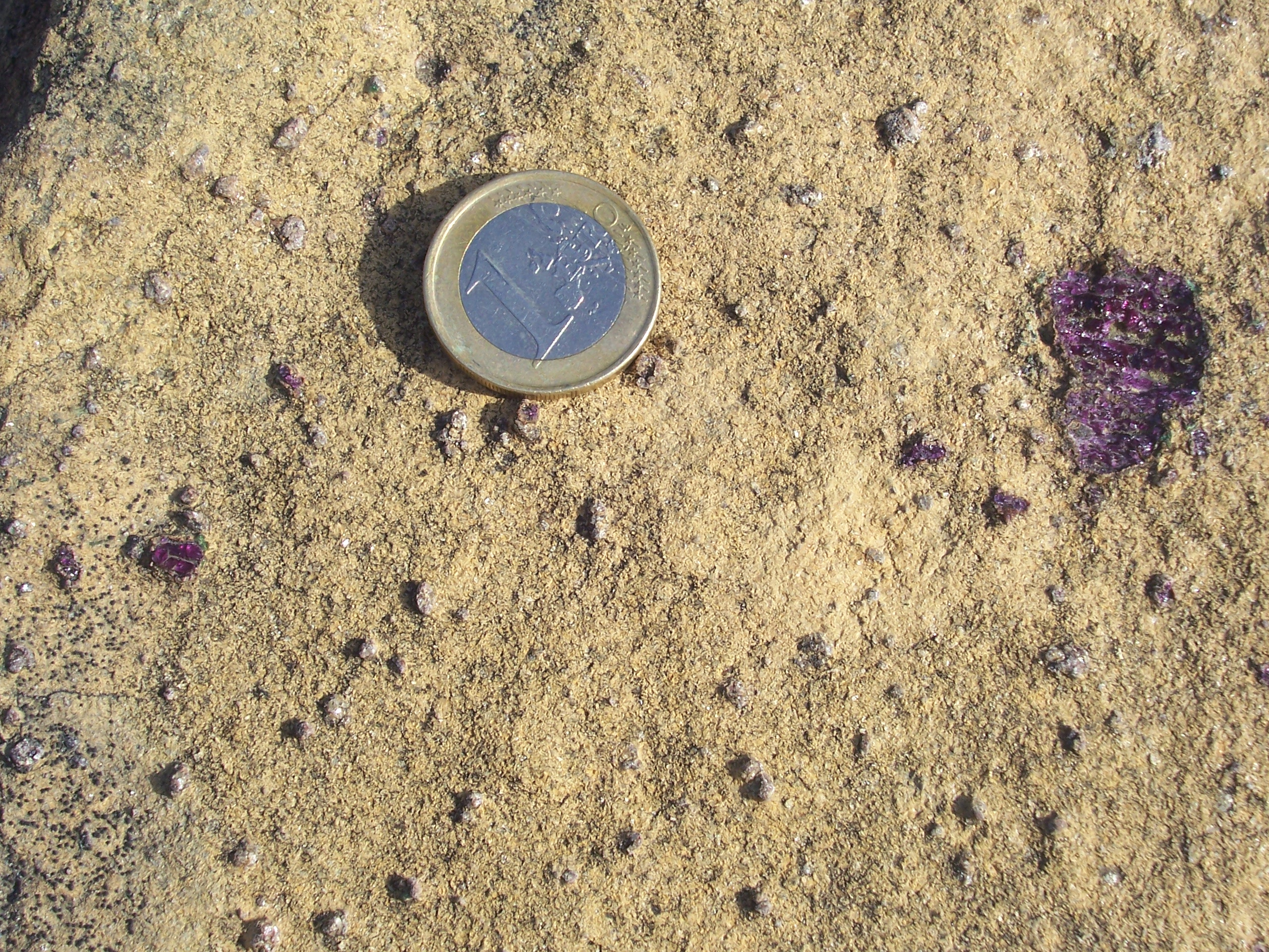 Peridotite rock with pyrope (purple garnet) porphyroblasts. The mocca-brown stuff is weathered olivine. The garnets weather out. Coin of 1 euro (diameter 2,3 cm) for scale. Ugelvik Peridotite-body, Otrøy, Western Gneiss Region, Caledonides, Norway. I made this picture: public domain.